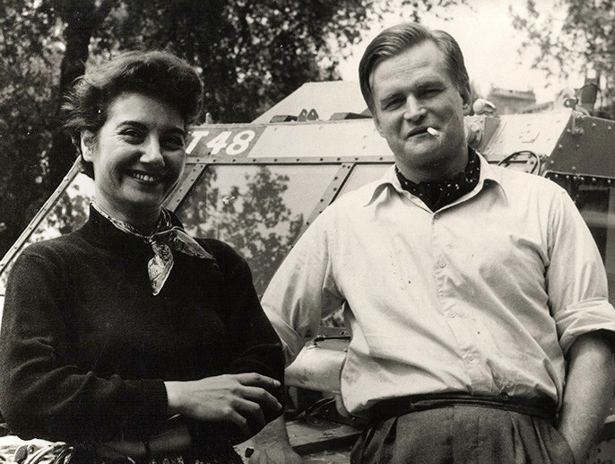 A photograph of Ben Carlin and his wife, Elinore, in Montreal in 1948.